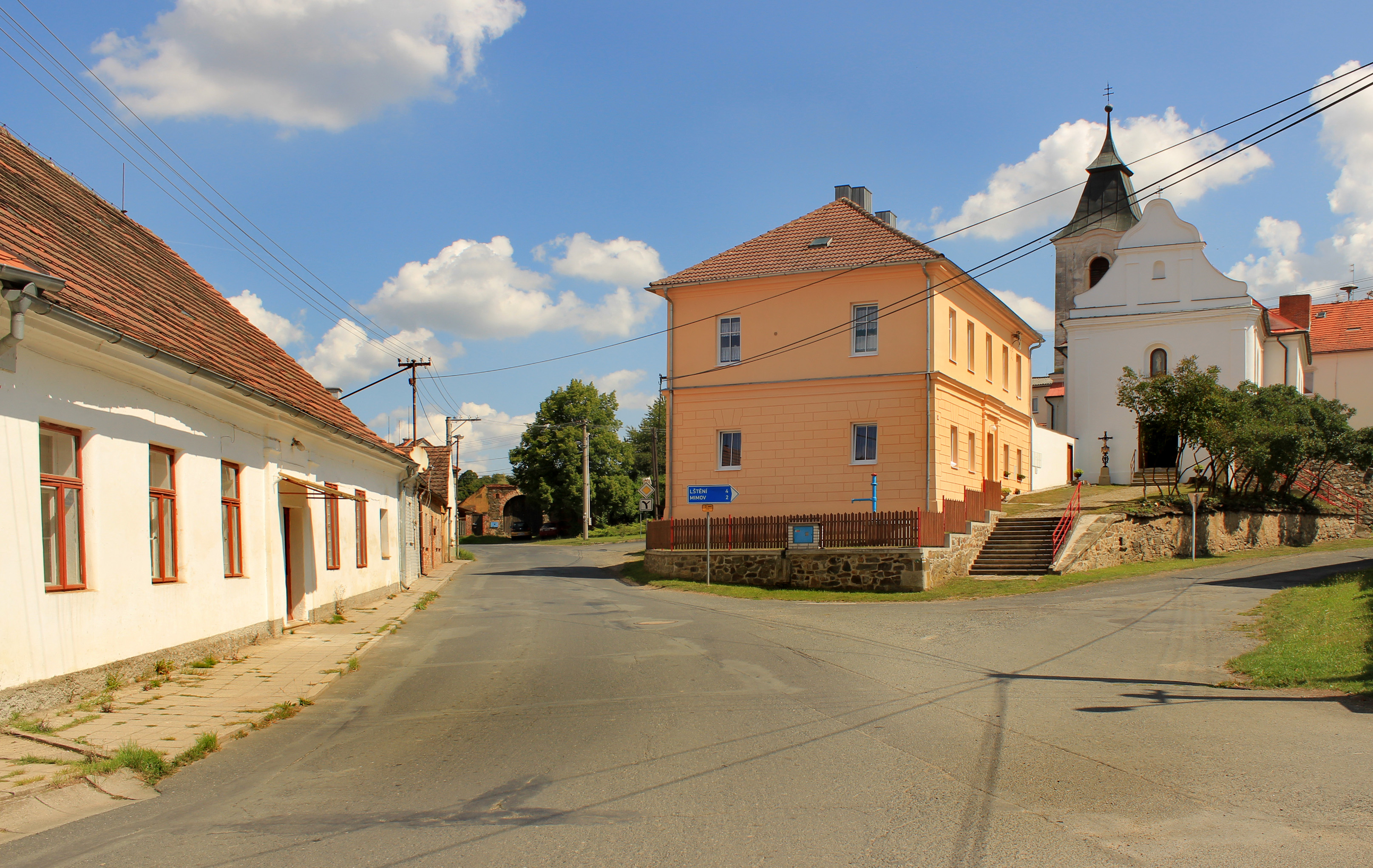 Intersection by church in Osvračín village, Czech Republic.